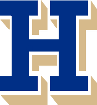 Logo for the Hamilton Continentals in New York.